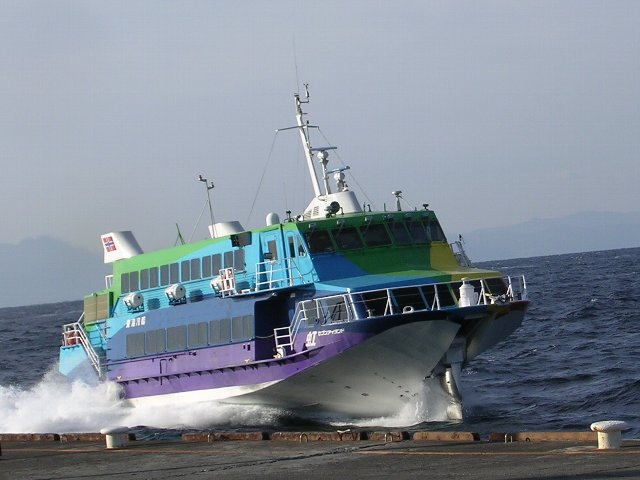 Seven Island Niji (Tokai Kisen, Izu-Oshima Motomachi port, Tokyo, JAPAN)